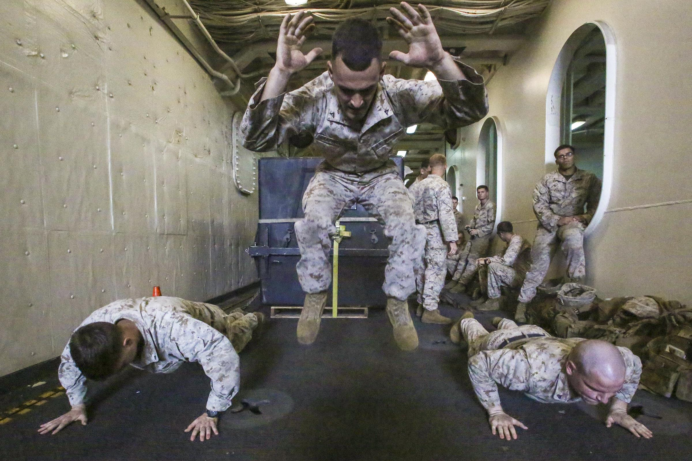 Airborne Burpee Marines do burpees, which work the entire body, during a physical fitness and weapons knowledge test on the USS San Antonio in the Gulf of Aden, Aug. 30, 2016. The Marines, assigned to the 22nd Marine Expeditionary Unit, are maintaining regional security in the U.S. 5th Fleet area of operations. Marine Corps photo by Sgt. Ryan Young